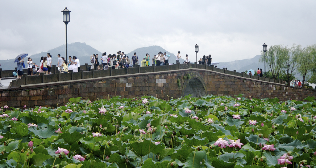 West Lake in Hangzhou, China